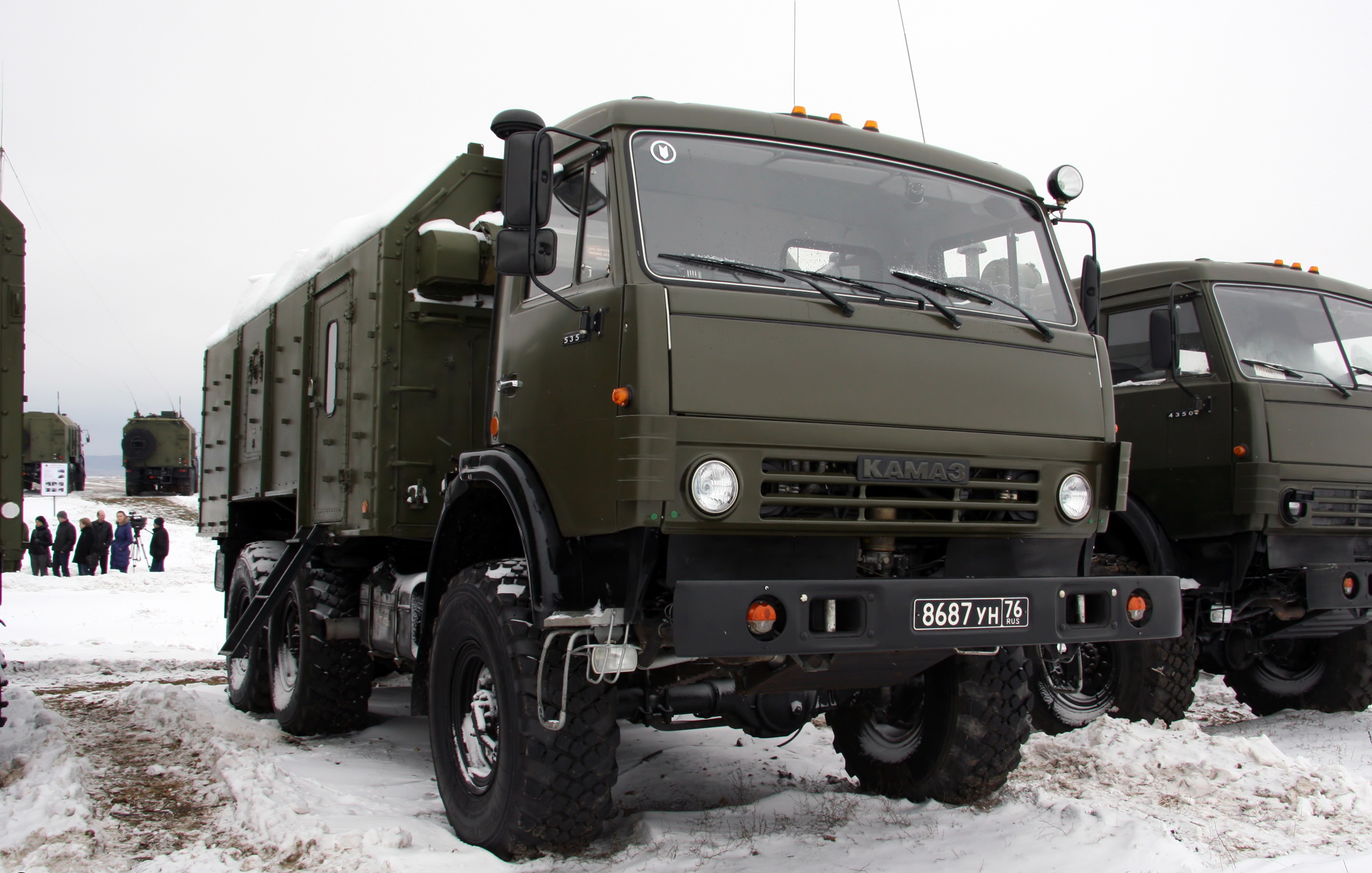 Calculating-analitical station RAST-3K